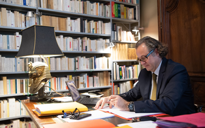 Alexandre Schmitt in 2019